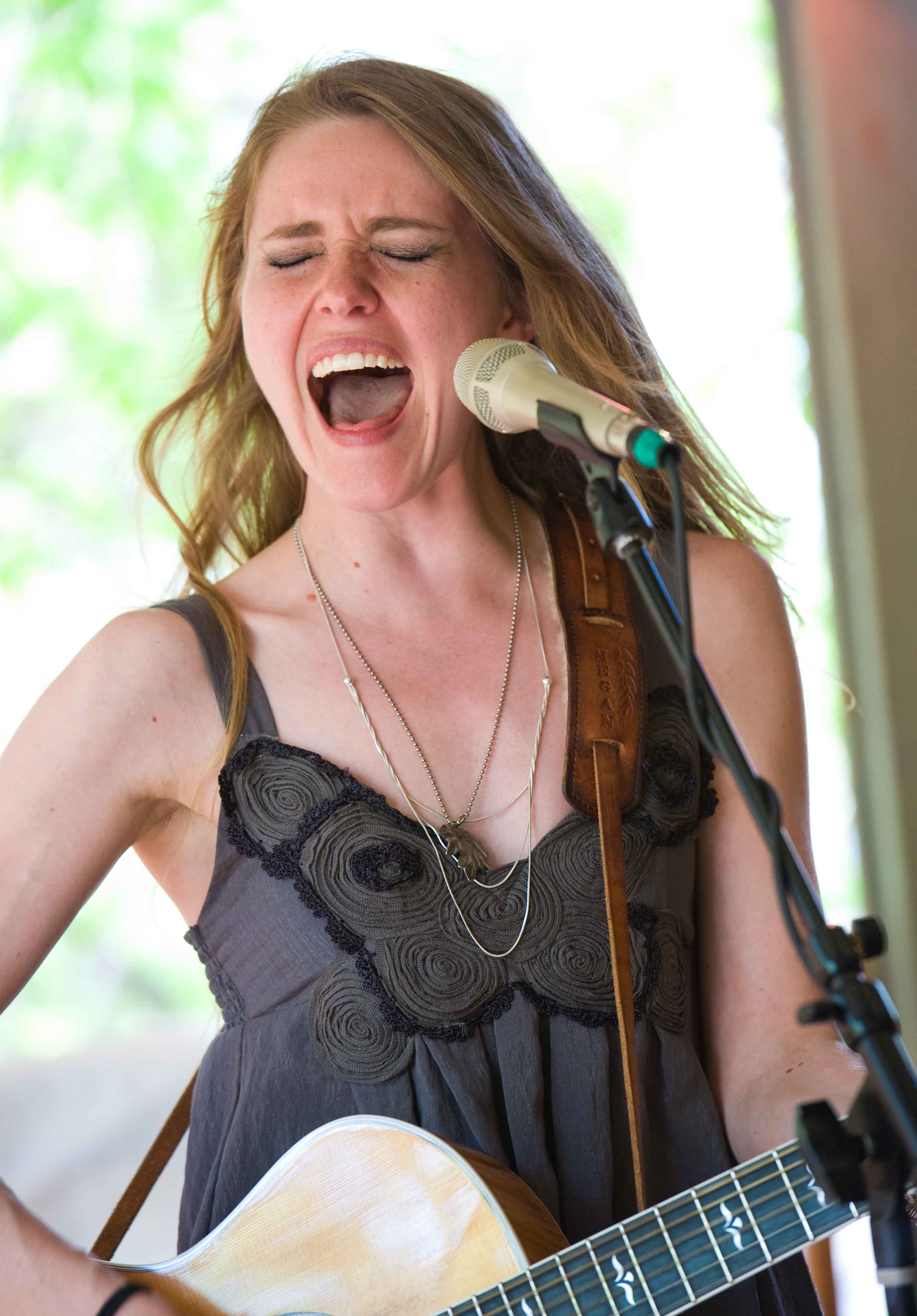 Megan Slankard performs at Flipnotics on March 19, 2011 during the SXSW Music Festival in Austin, TX.